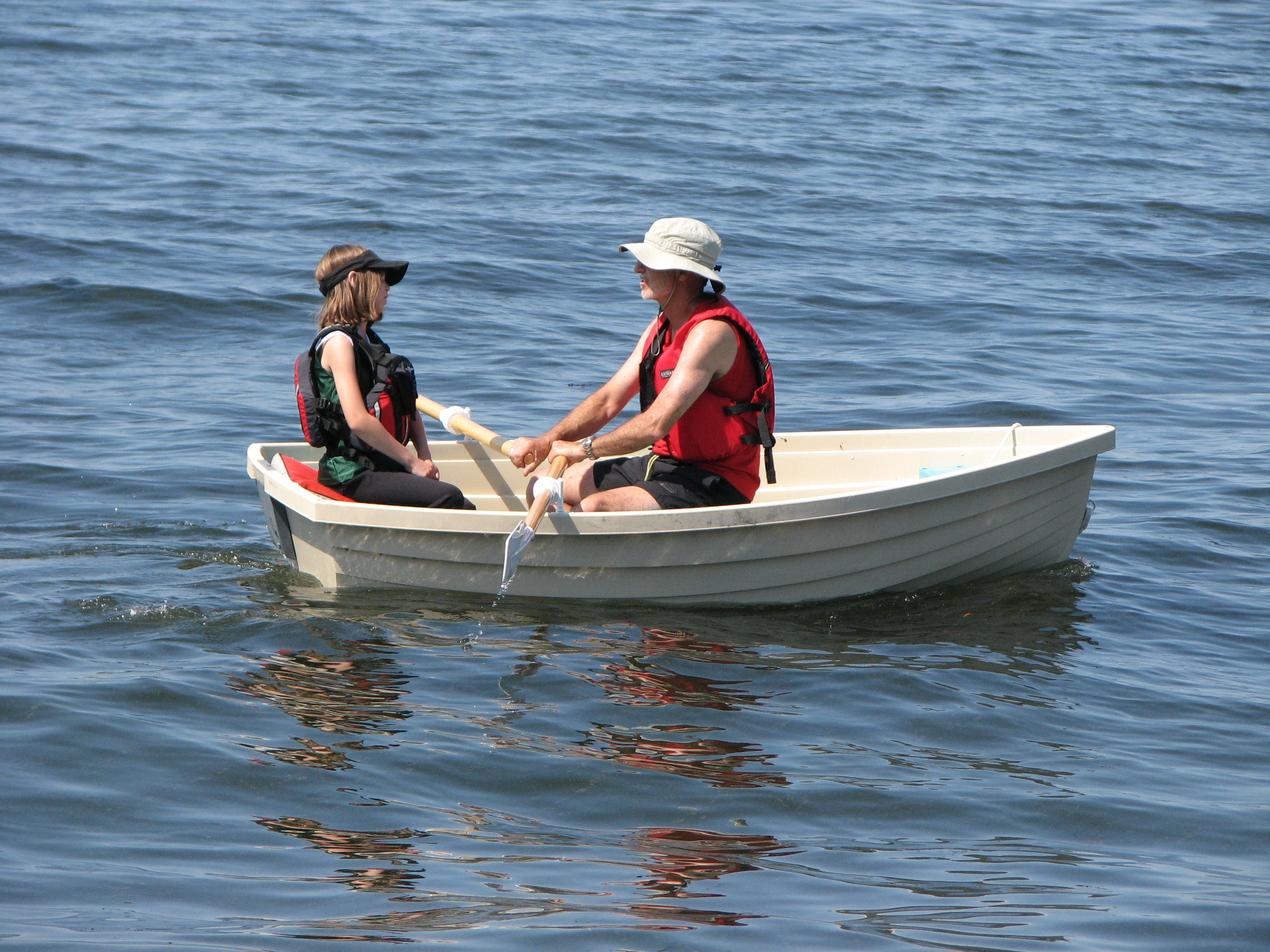 Rowboat with oars and two passengers.